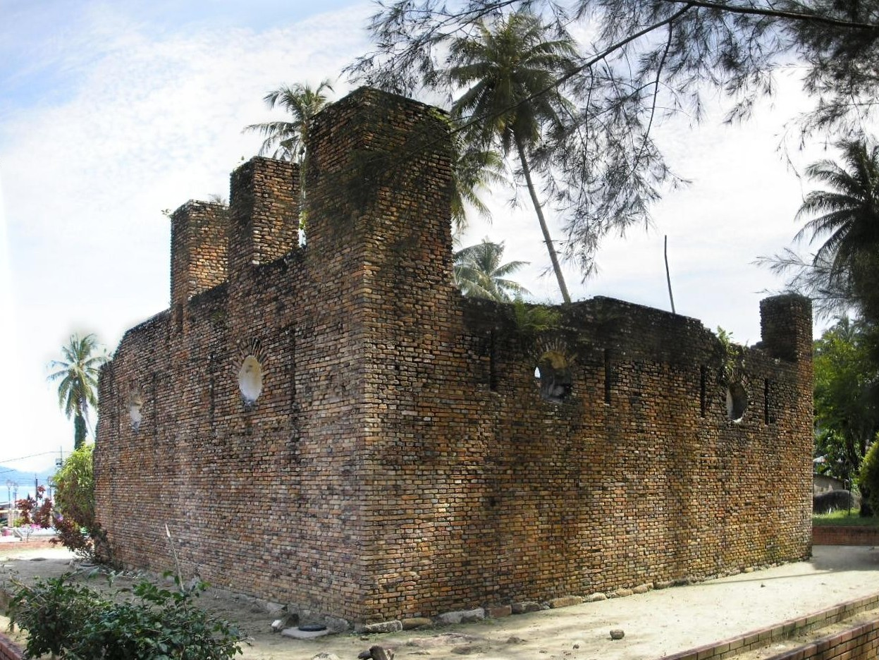 The ruins of the Dutch Fort (Malay: Kota Belanda) on Pangkor Island.